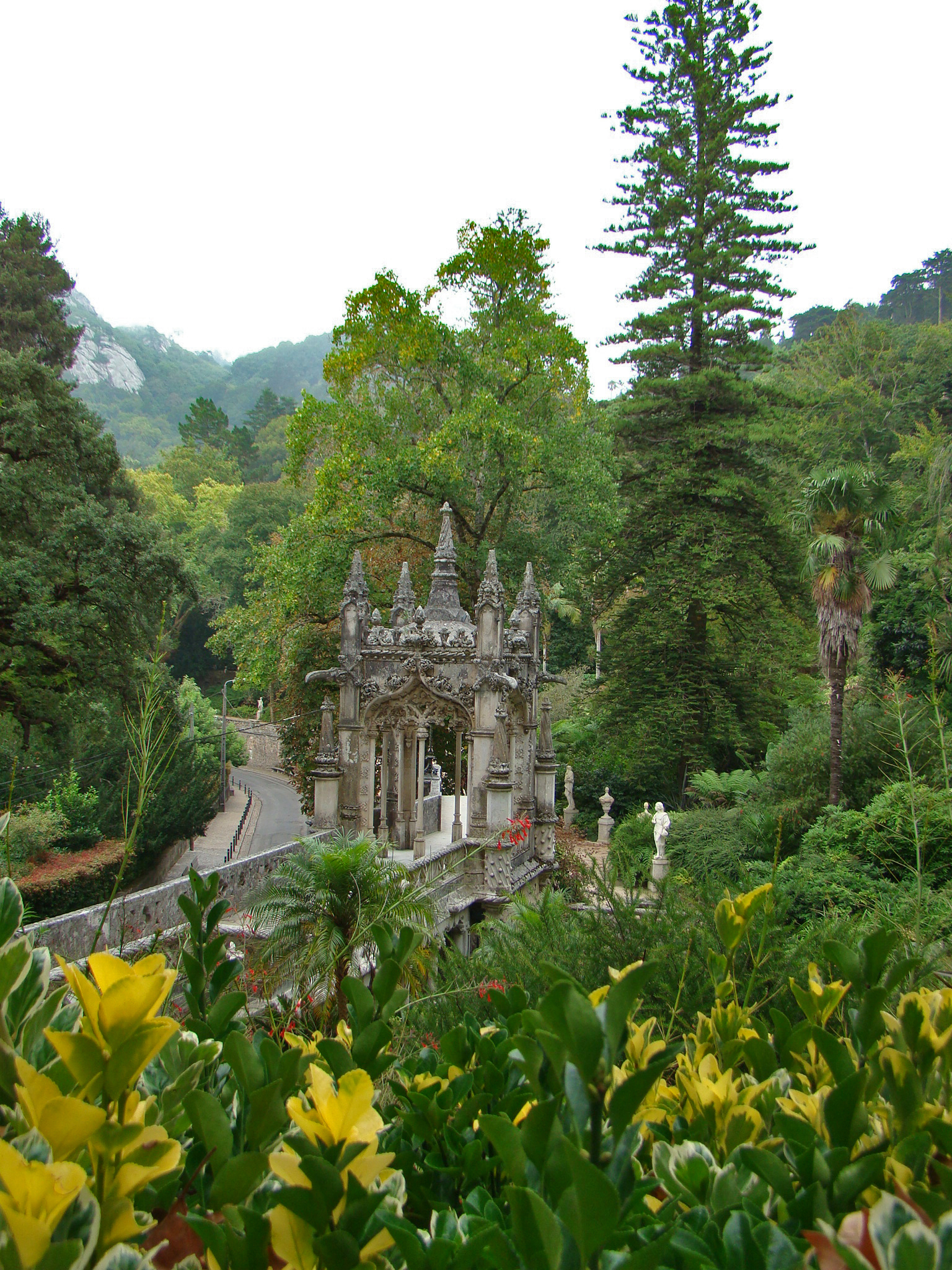 Vegetation in Quinta da Regaleira